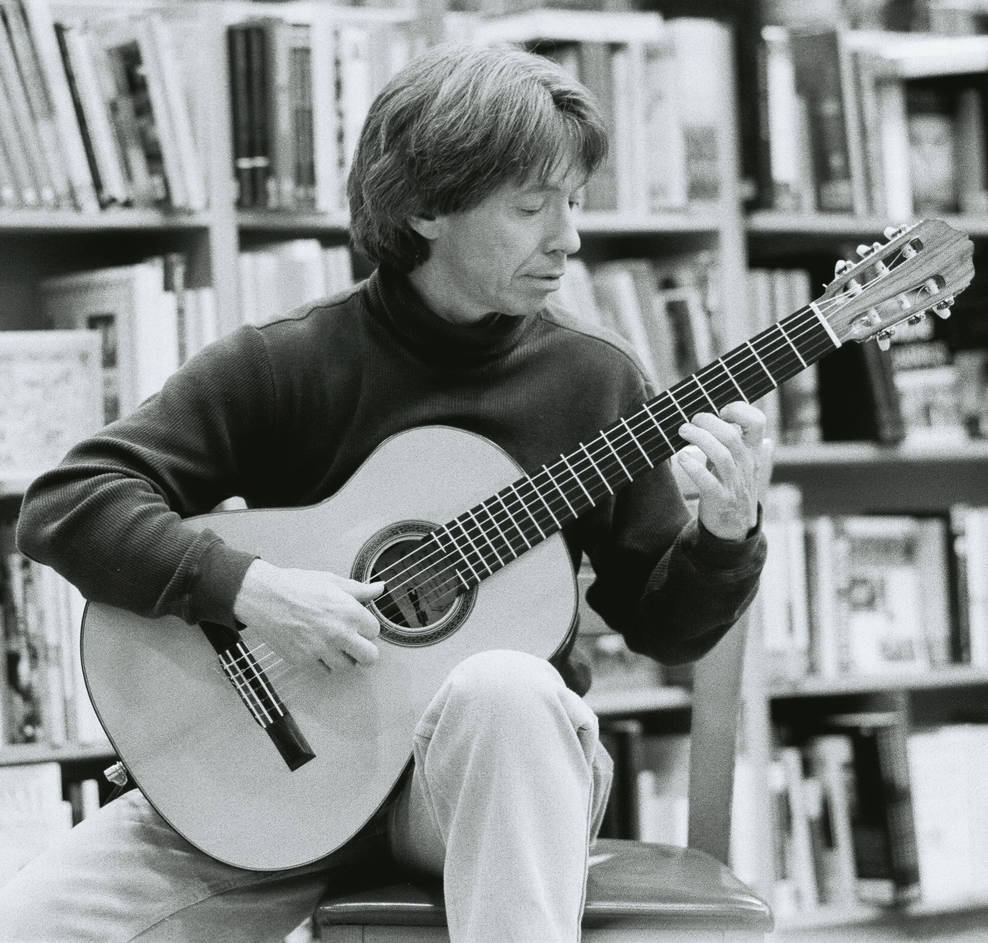 Gregory Coleman performing in Mission Viejo, California in January 2002